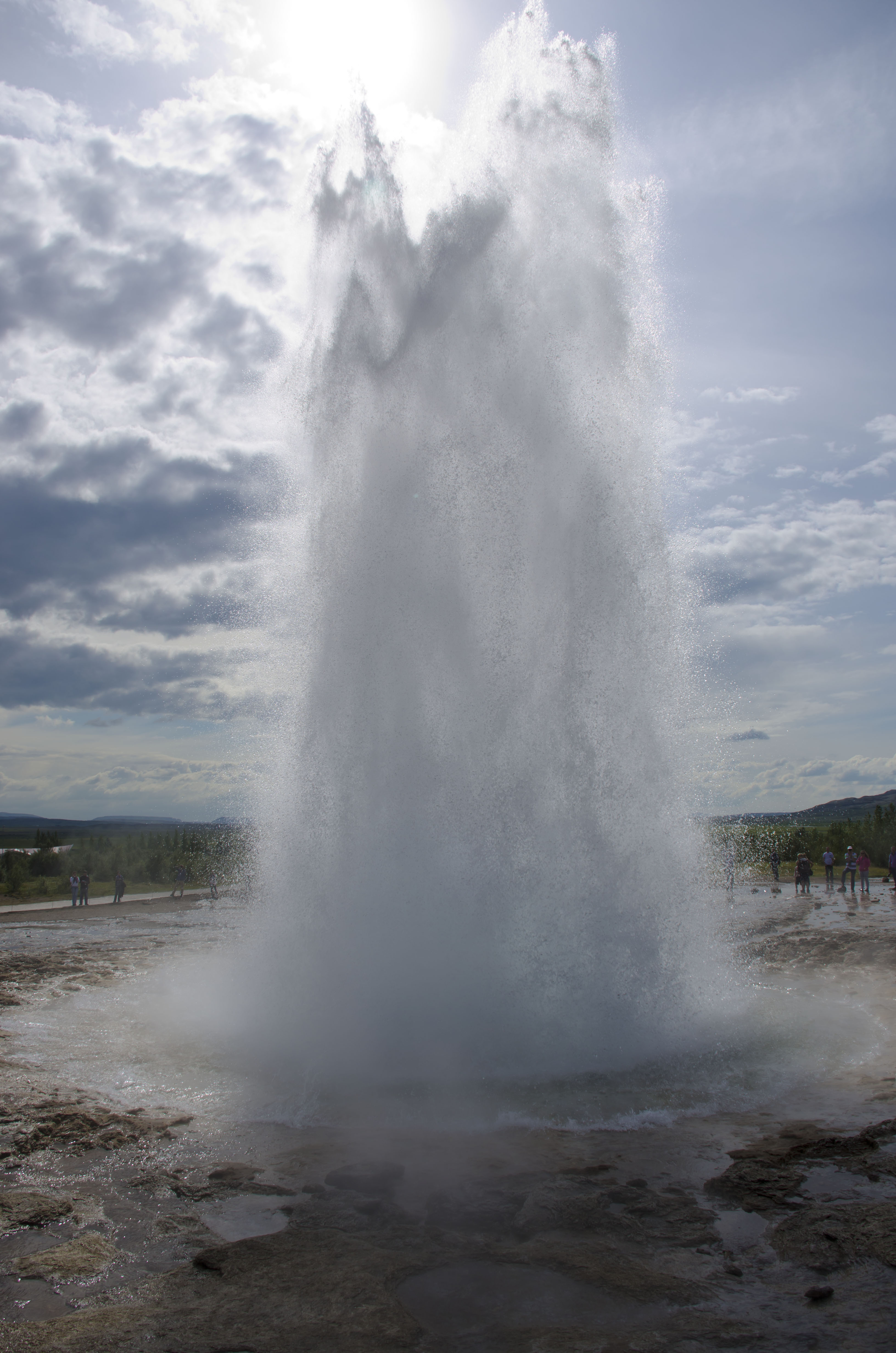 Eruption of the Strokkur geysir, Iceland